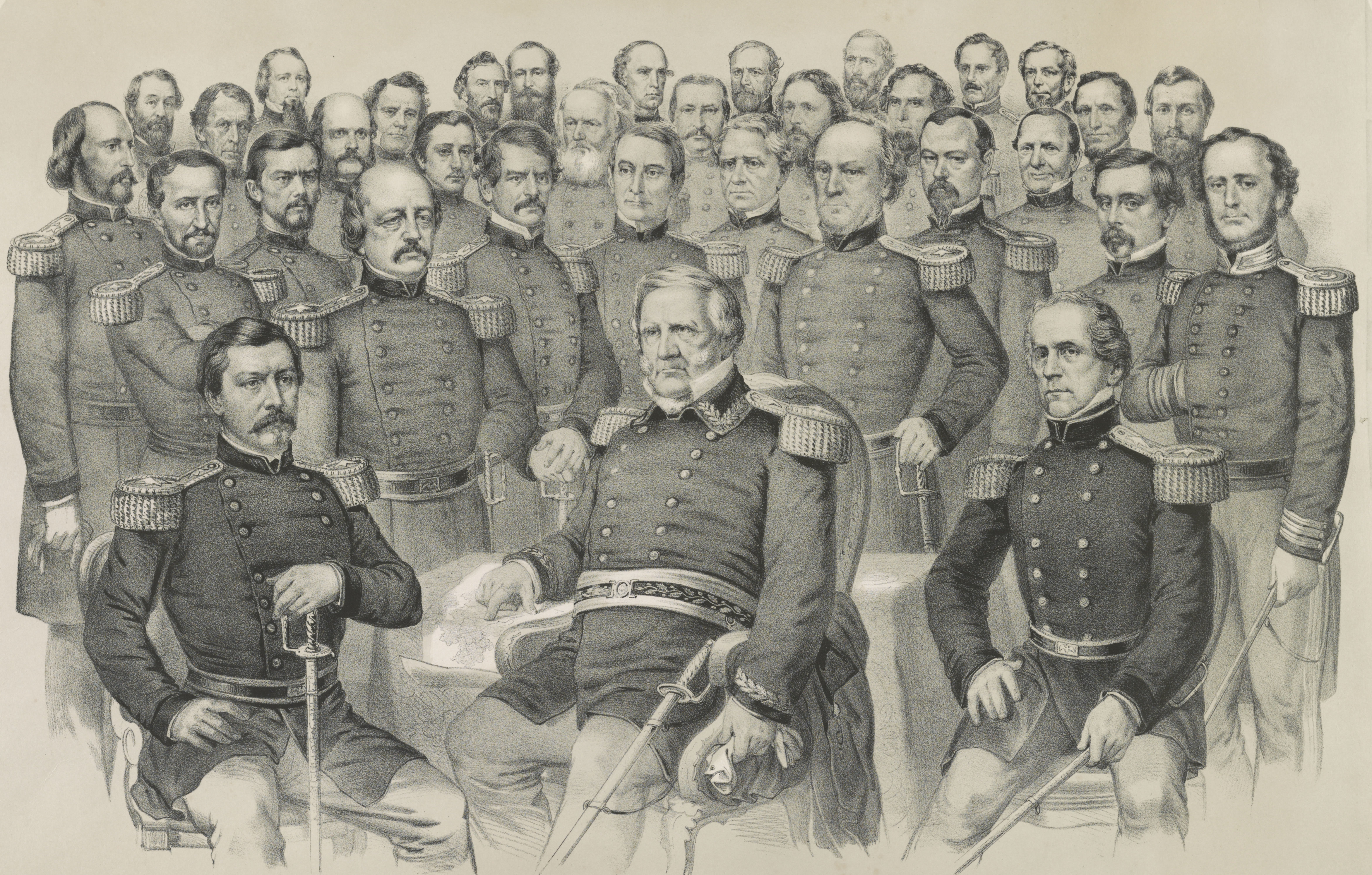 The champions of the Union. Print is a group portrait of Union Army generals and Navy commanders; caption identifies each man: Genl. Heintzelman, Genl. Pope, Genl. Sherman [Thomas W.], Genl. McClernand, Genl. Grant, Genl. Curtis, , Genl. Buell, Genl. Sumner, Genl. Shields, Com. Foote, Genl. Lander, Capt. Wilkes, Genl. Sigel, Genl. Burnside, Genl. Sprague, Genl. Mansfield, Genl. Hunter, Genl. Fremont, Genl. Kelly, Com. Stringham, Genl. Prentiss, Genl. Cox, Genl. Rosecrans, Genl. Butler, Genl. Banks, Genl. Anderson, Genl. Dix, Genl. Halleck, Genl. McDowell, Act. Genl. T. F. Meagher, Com. Dupont, Genl. McClellan, Genl. Scott, Genl. Wool. Lithograph. Cropped from original.